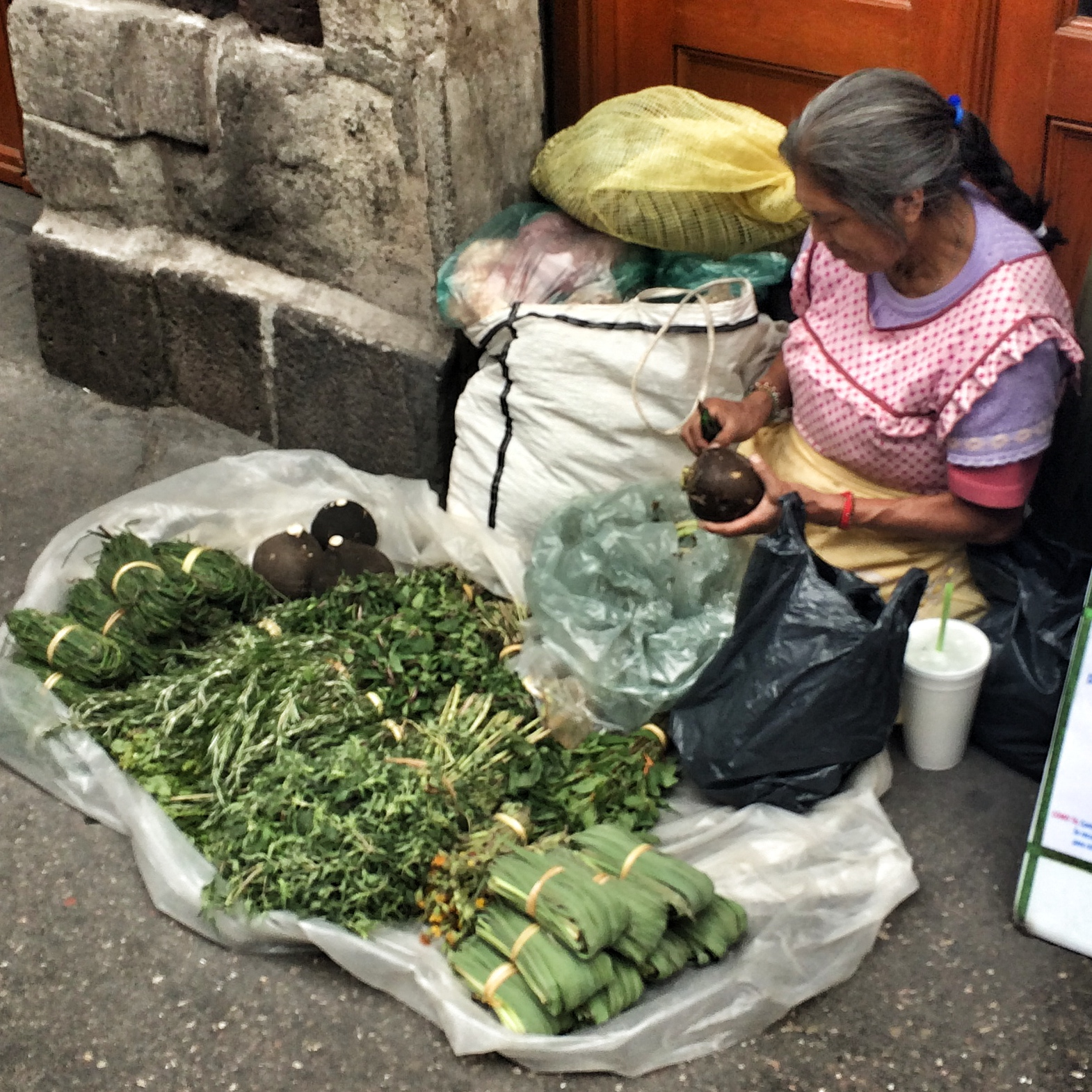 Woman selling herbs from tarp on sidewalk, Downtown Mexico City, April 2014